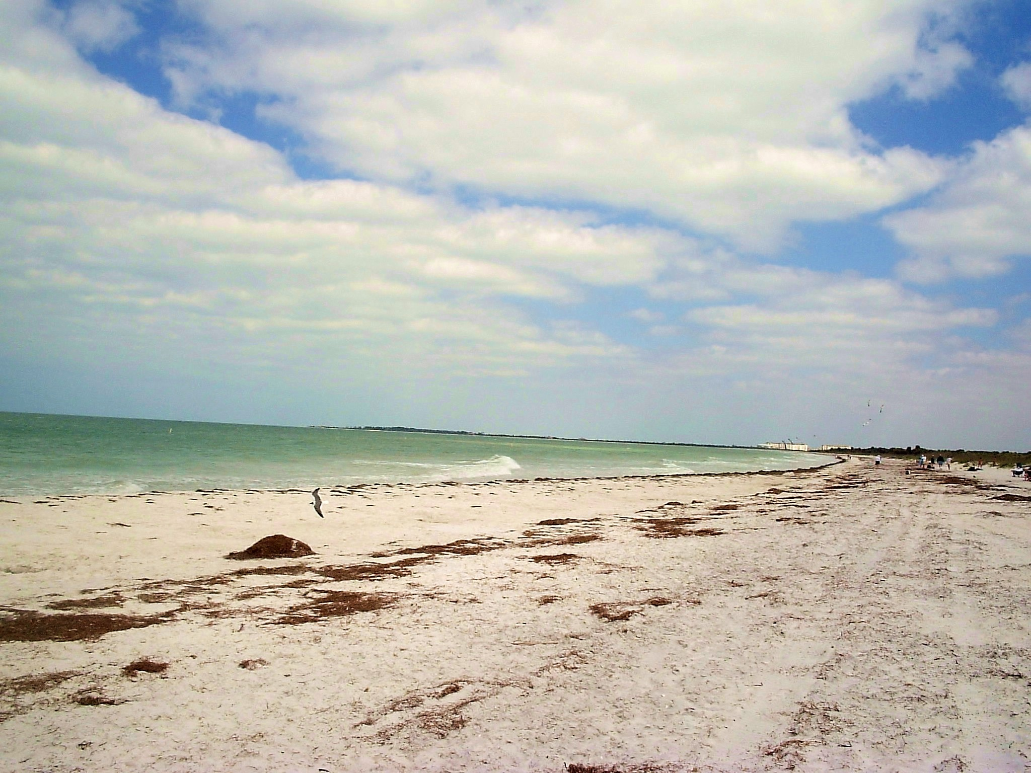 Taken by me March 6, 2006. Beach at Caladesi Island State Park. Honeymoon Island in distant background.Olympus Camedia D-395 digital camera. Mikereichold 23:14, 14 March 2006 (UTC)